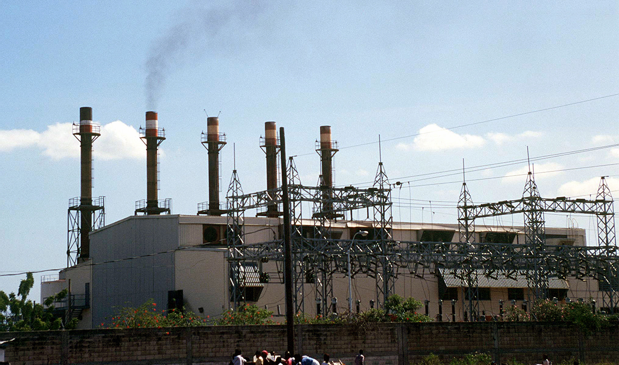 The Carrefour power plant in Port-au-Prince is being restored in a collective effort by the Carrefour and Varraux power plants and the 249th Engineer Battalion from Ft. Bragg, NC. The 249th are helping the Haitians with supplies and some technical advice. Exact Date Shot Unknown.